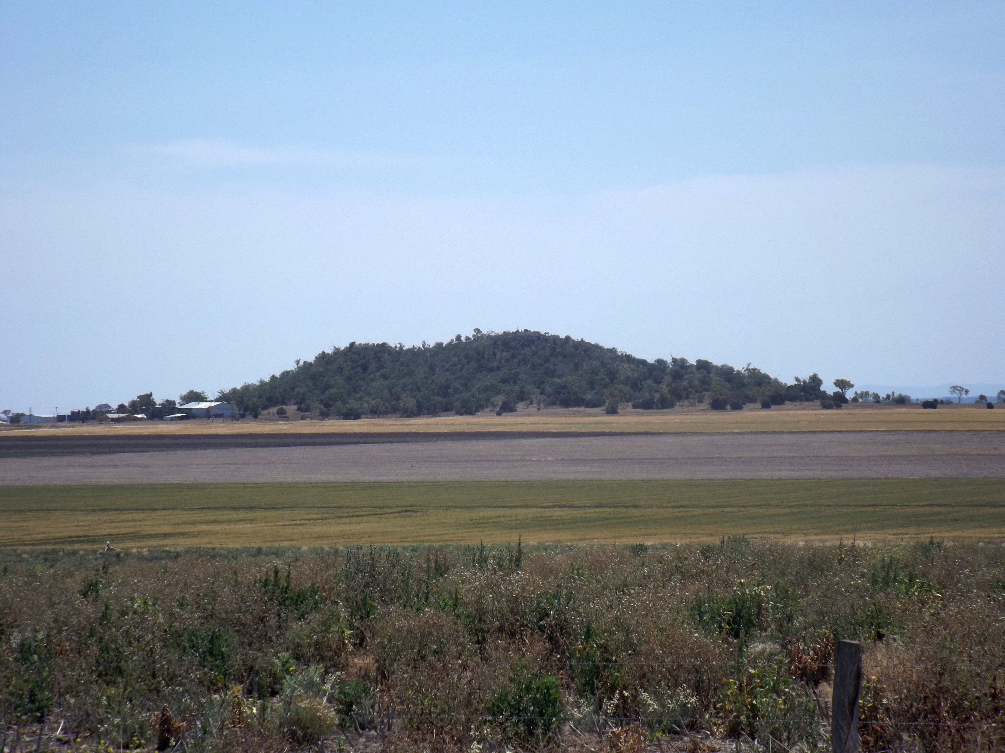 Photo of fields and Mount Irving at Mount Irving, Queensland, Australia.